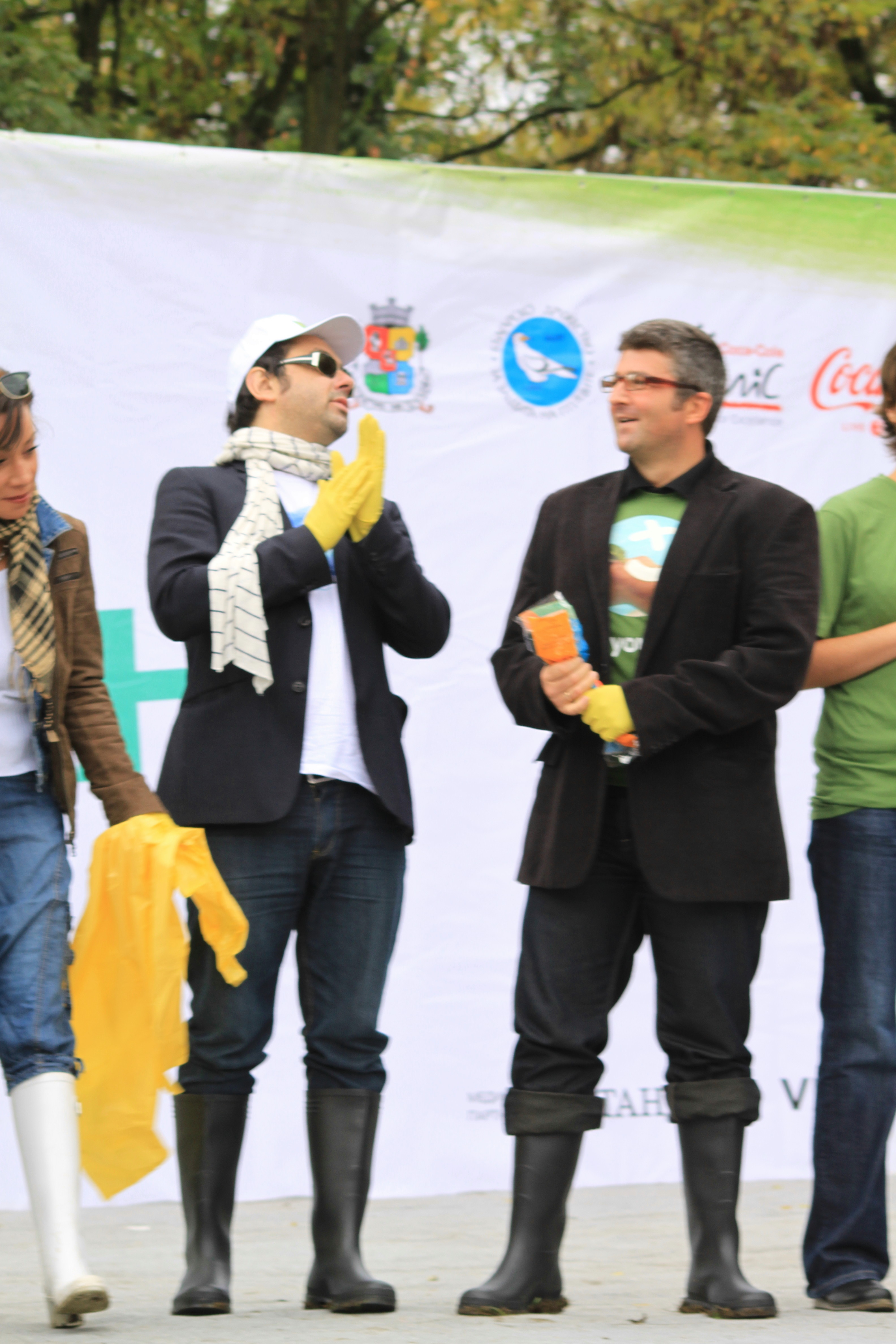 Boyan Petkov and Svilen Noev from pop band OSTAVA.